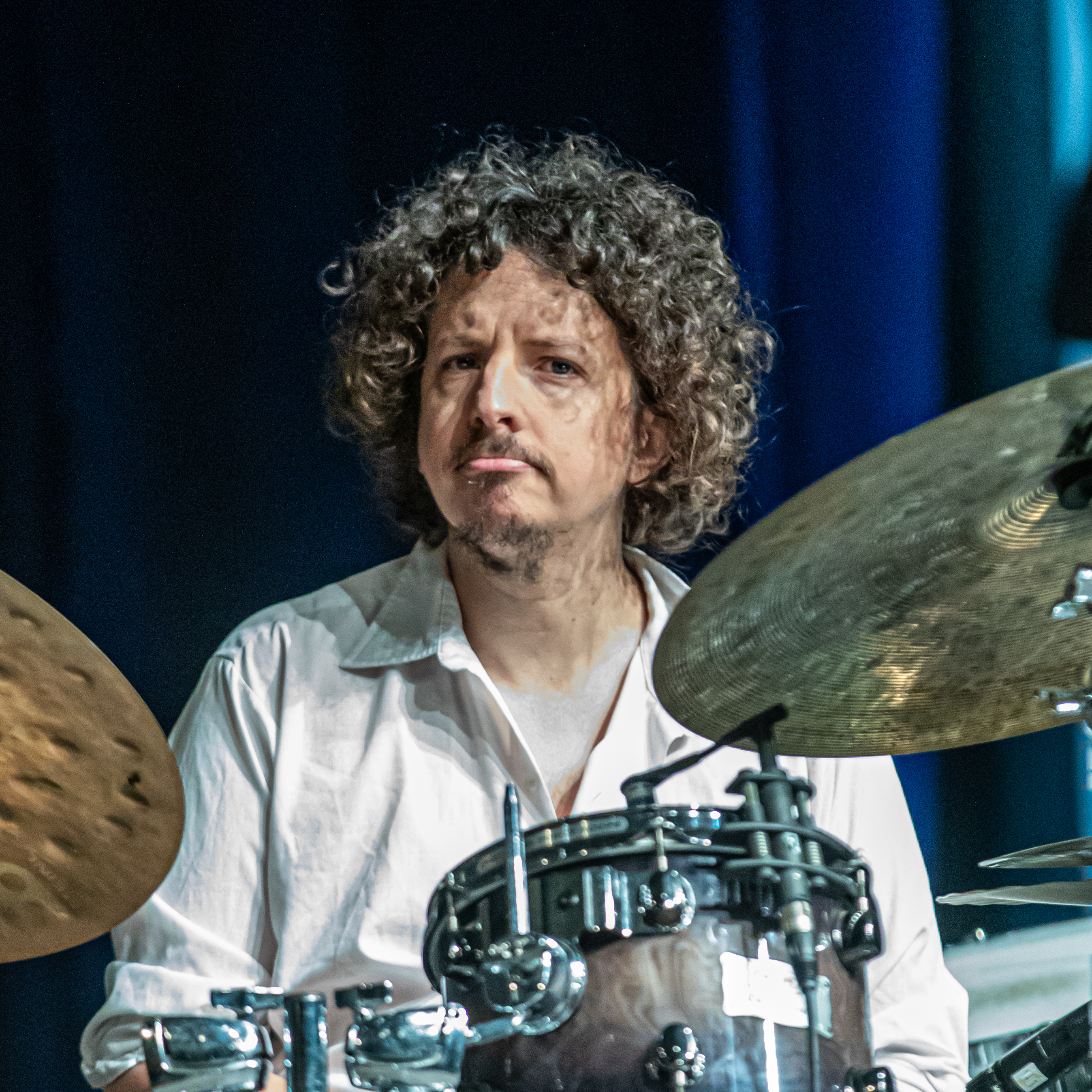 Jazz musician Diego Piñera at the Kulturbörse Freiburg 2019